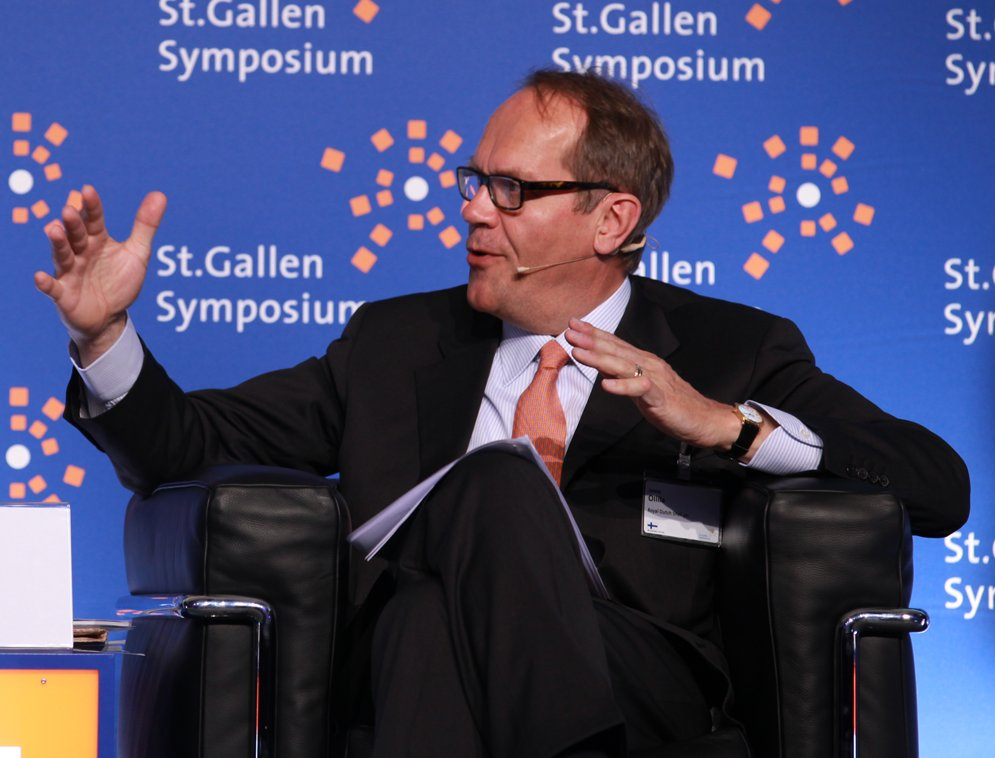 Jorma Olilla in May 2011 at the 41. St. Gallen Symposium at the University of St. Gallen